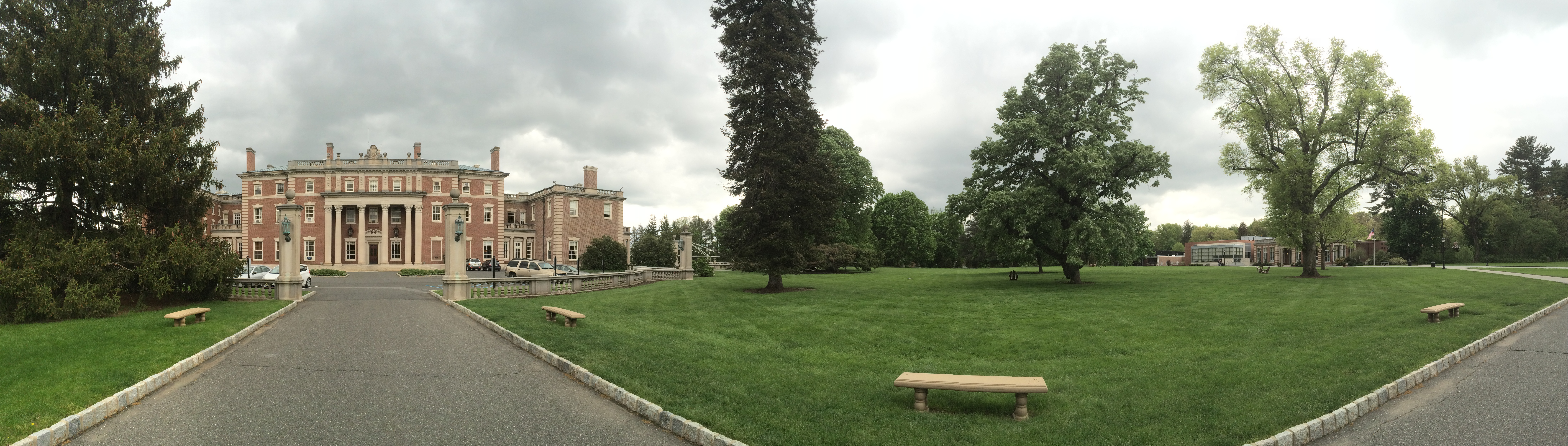 Florham panorama from the Mall at Fairleigh Dickinson University